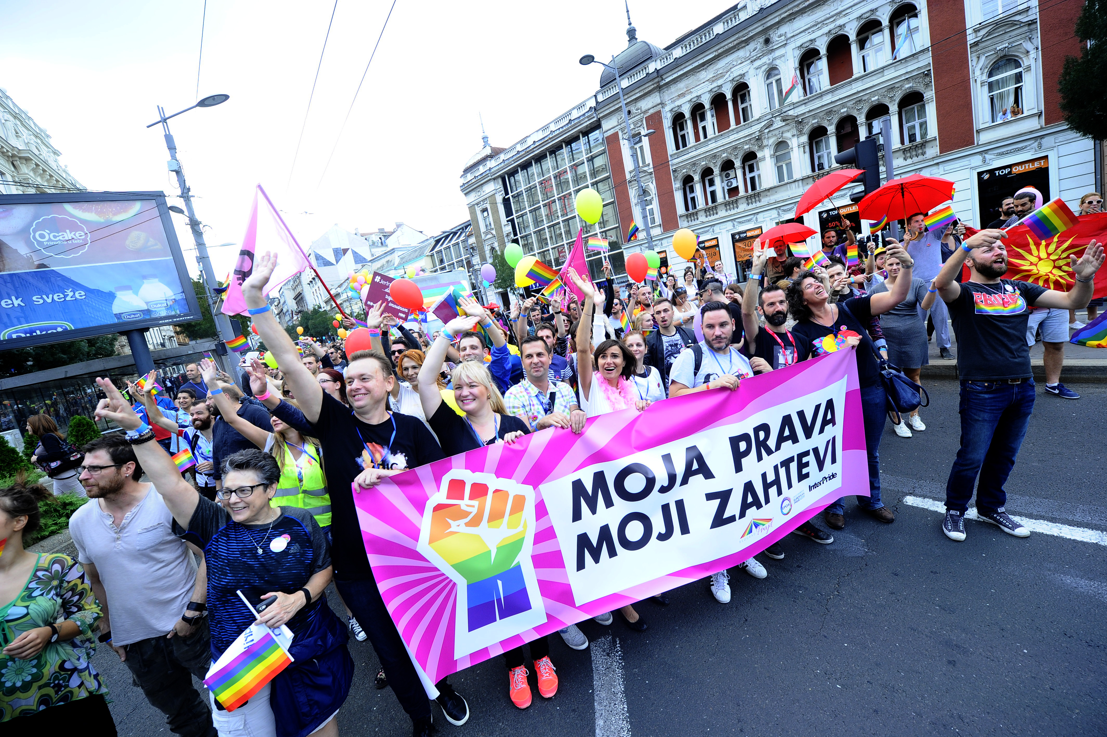 Belgrade Pride Parade 2015, September 20, 2015.